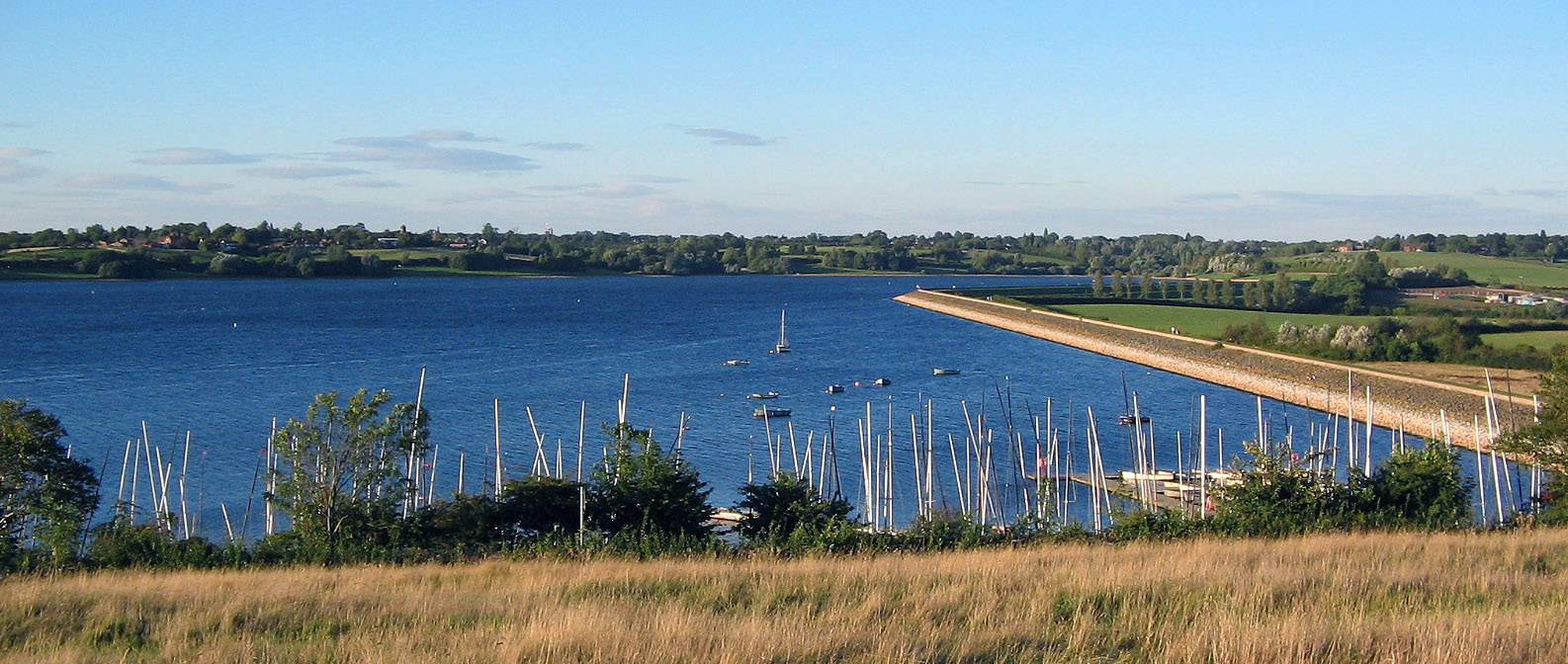 A view over Draycote Water in Warwickshire south of Rugby. Photo by G-Man Aug 2005